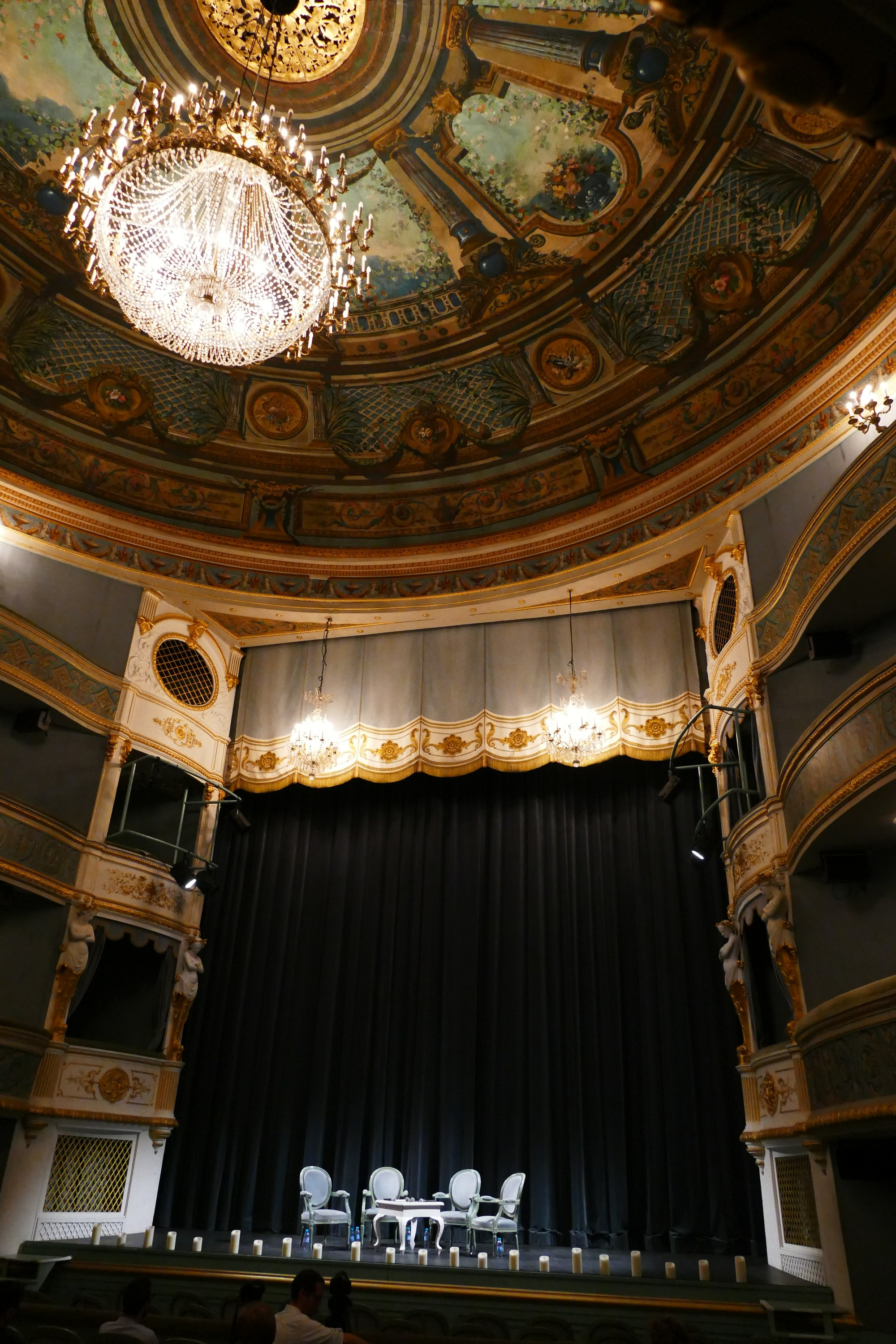 Théâtre Montansier in Versailles (Yvelines, Île-de-France, France).